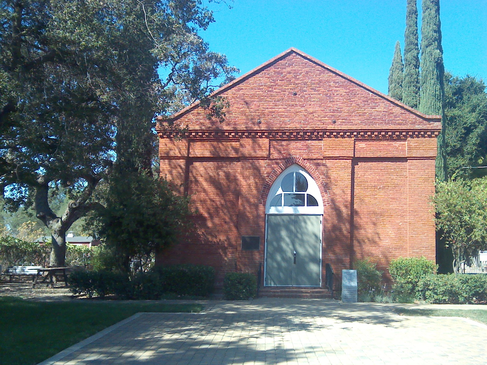 An image of Harmony Grove Church